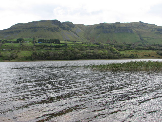 Glencar Lough Looking south across the lough towards Cope's Mountain.